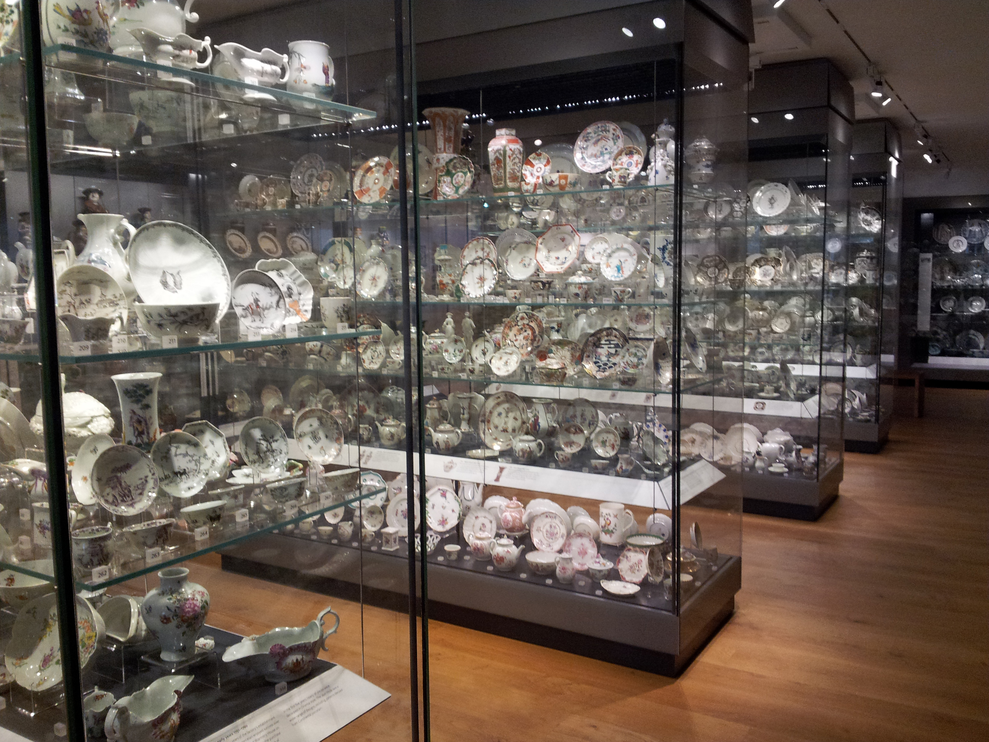 Ashmolean Museum Oxford European Ceramics Gallery 2014